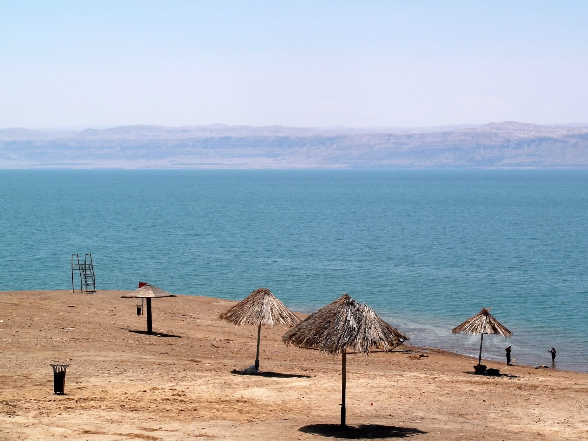 Dead Sea beach, jordan